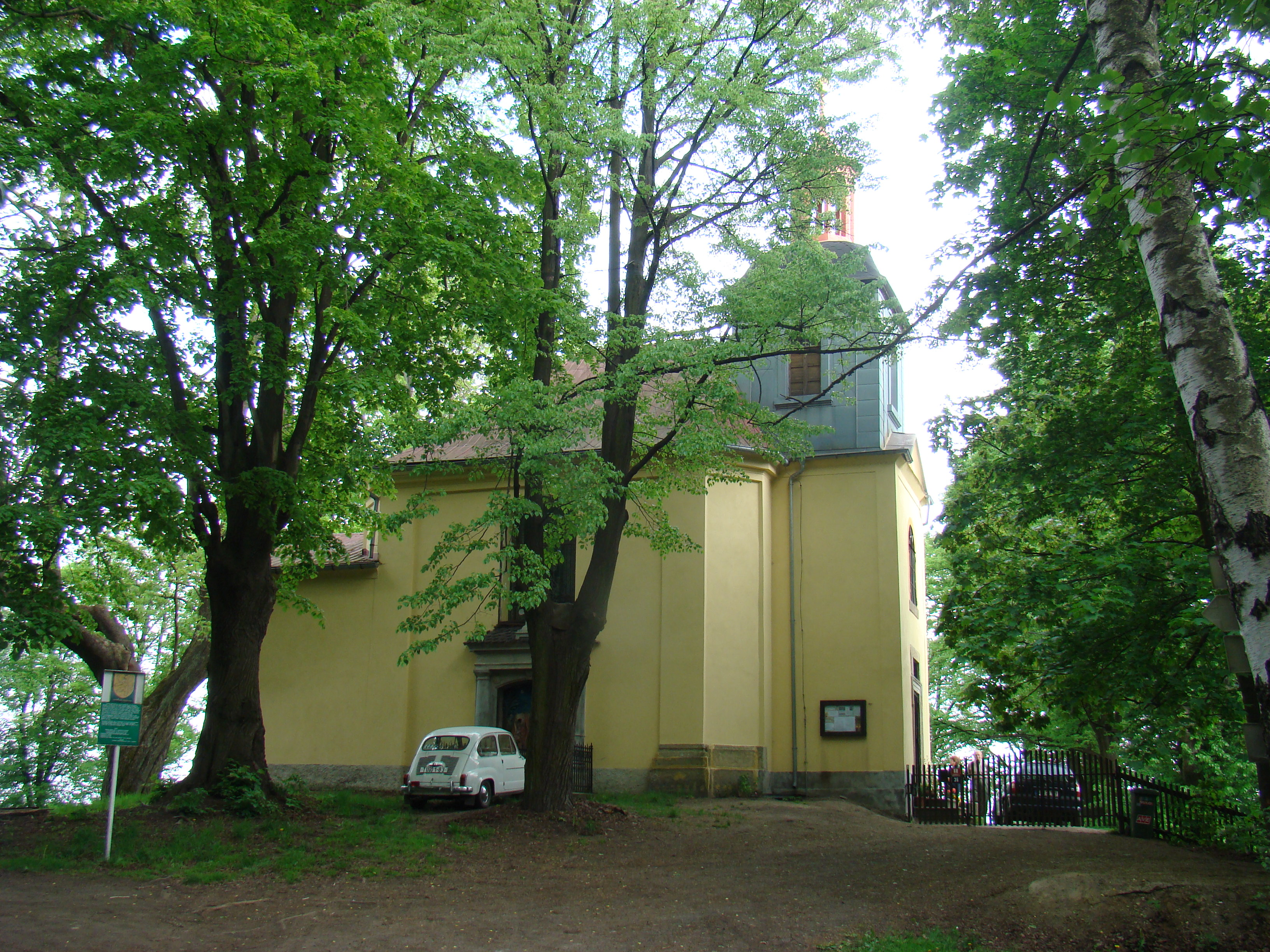 Protected example of Common Ash (Fraxinus excelsior) on the Strážný vrch hill near Rumburk, Děčín District, Czech Eepublic, 2010